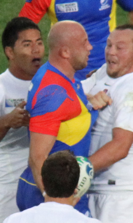 Romanian rugby union player Cosmin Rațiu during 2011 Rugby World Cup match against England.